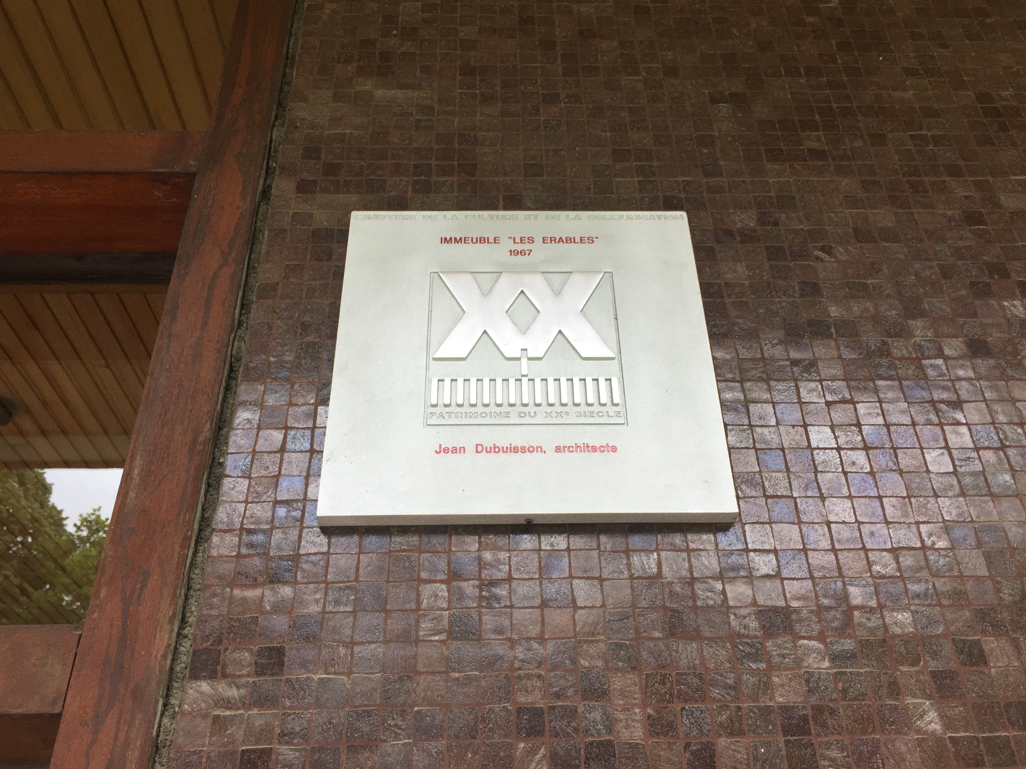 This photograph was taken with an iPhone 6